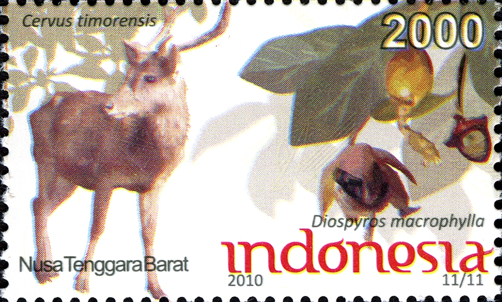 Stamps of Indonesia